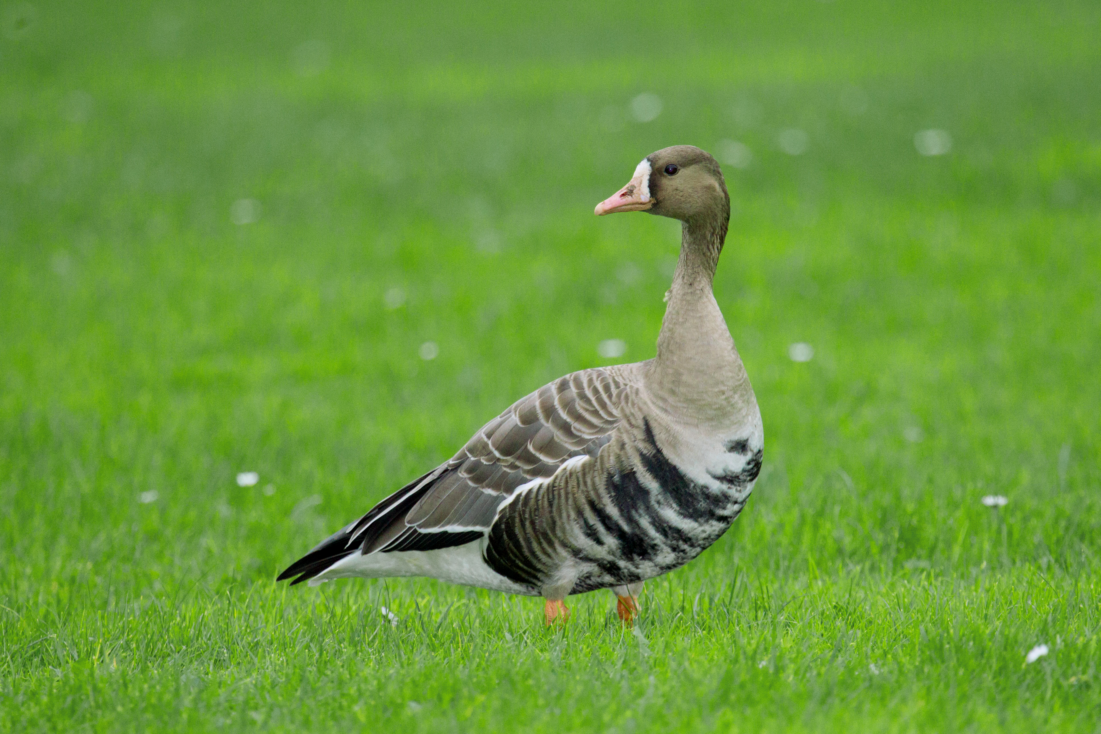 Greater White-fronted Goose